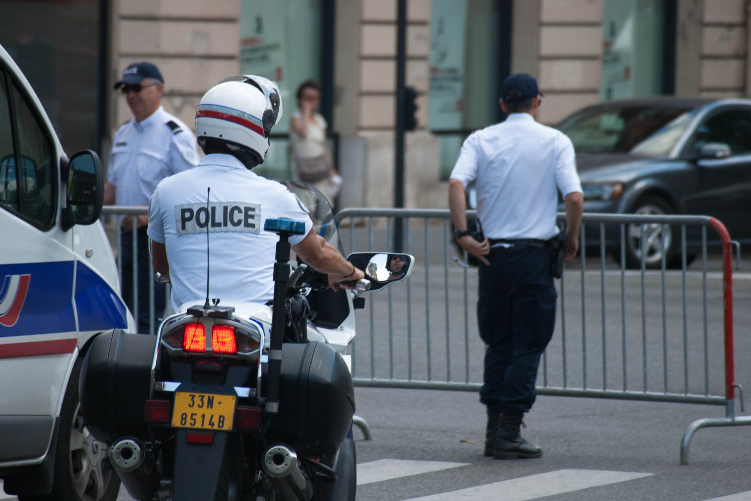 Dam of the French National Police during the Gay Pride 2014 (Toulouse). Officers on foot and bike. Summer uniforms